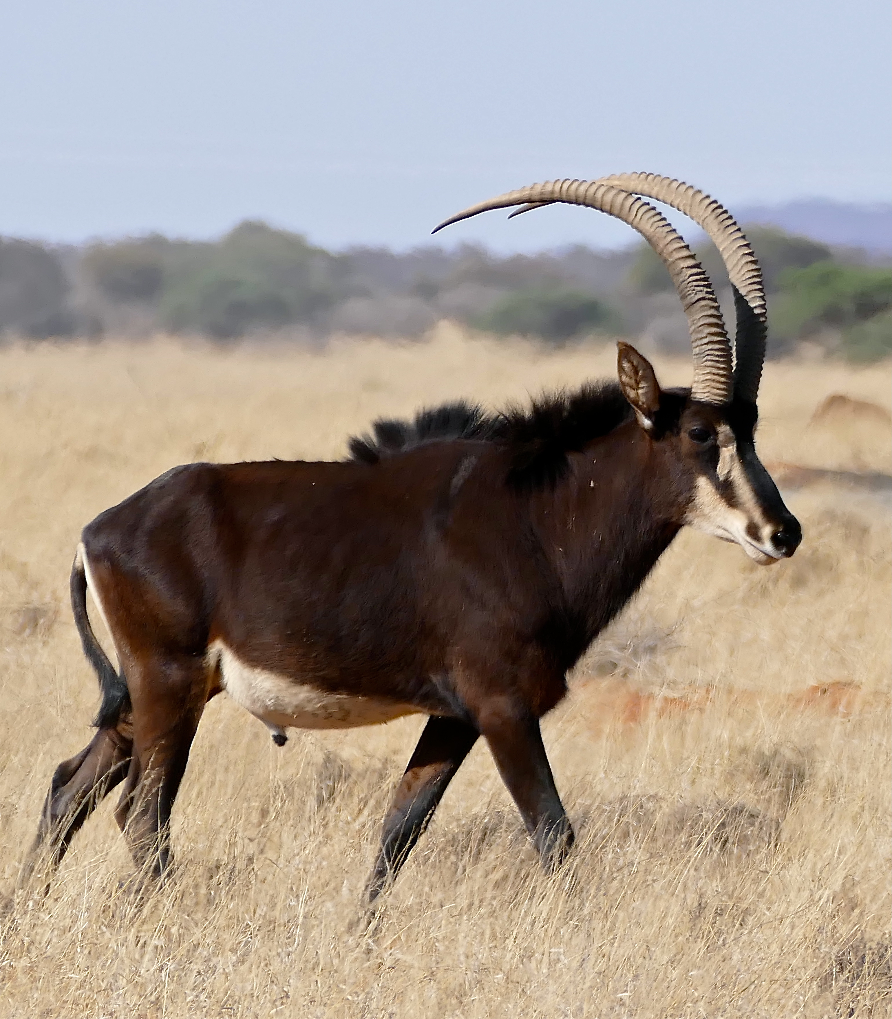 Sable (antelope) - Lilydale Area, Mokala NP, Northern Cape, SOUTH AFRICA